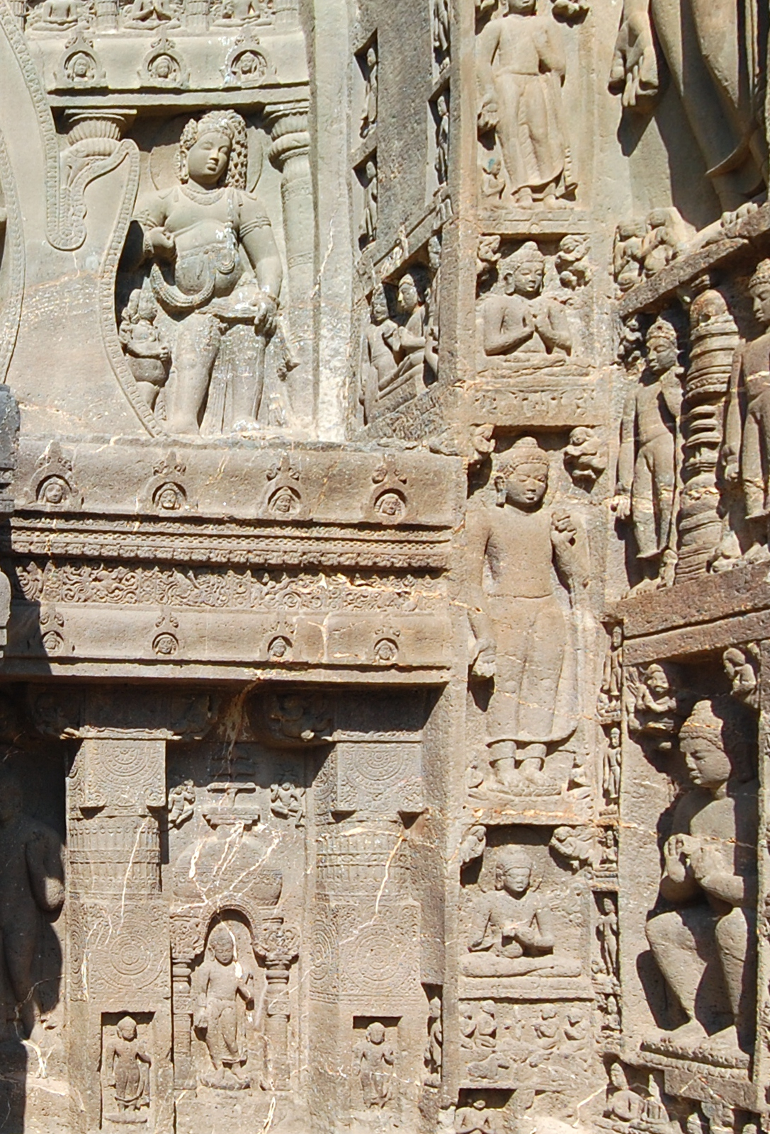 Entrance to cave no. 19 in Ajanta Caves complex, India.